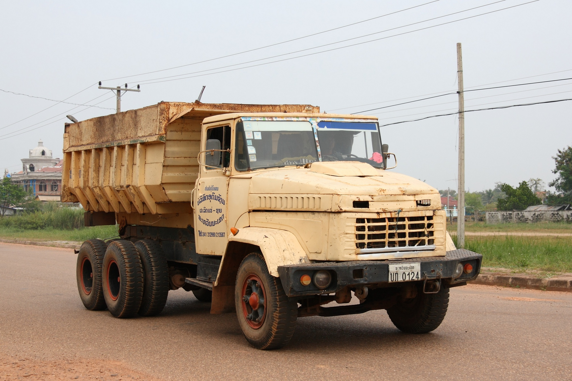 KrAZ truck in Savannakhet, Laos